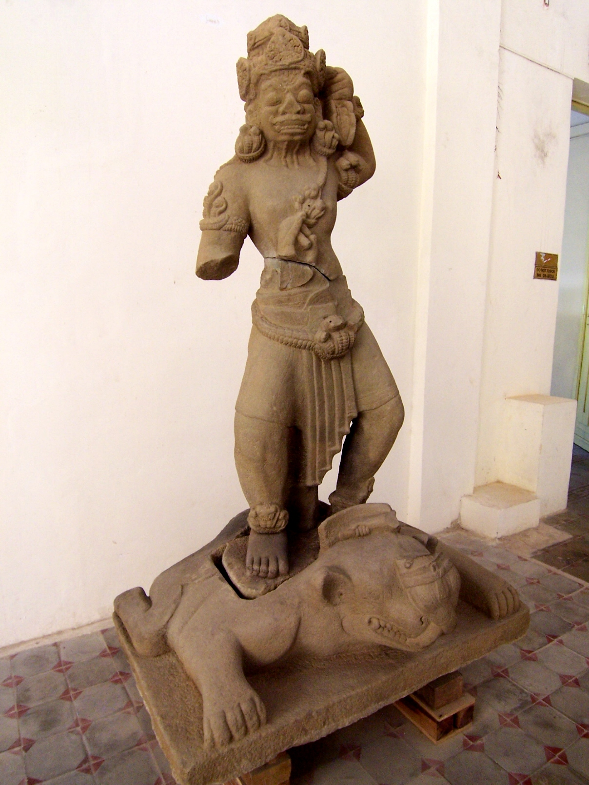 The photo is of a sandstone sculpture from the 9th or 10th century in Champa. It belongs to the Dong Duong Style. It shows a dvarapala (guardian) stomping on a bear.DoktorMax 18:02, 11 August 2007 (UTC)